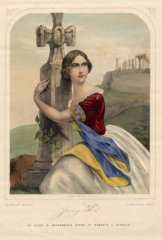 The heroine clings to a stone cross below a Grecian temple. 1840s Hand-coloured lithograph